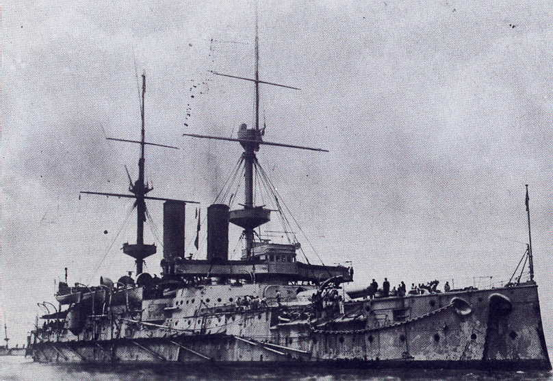 HMS Resolution (1892) in 1903